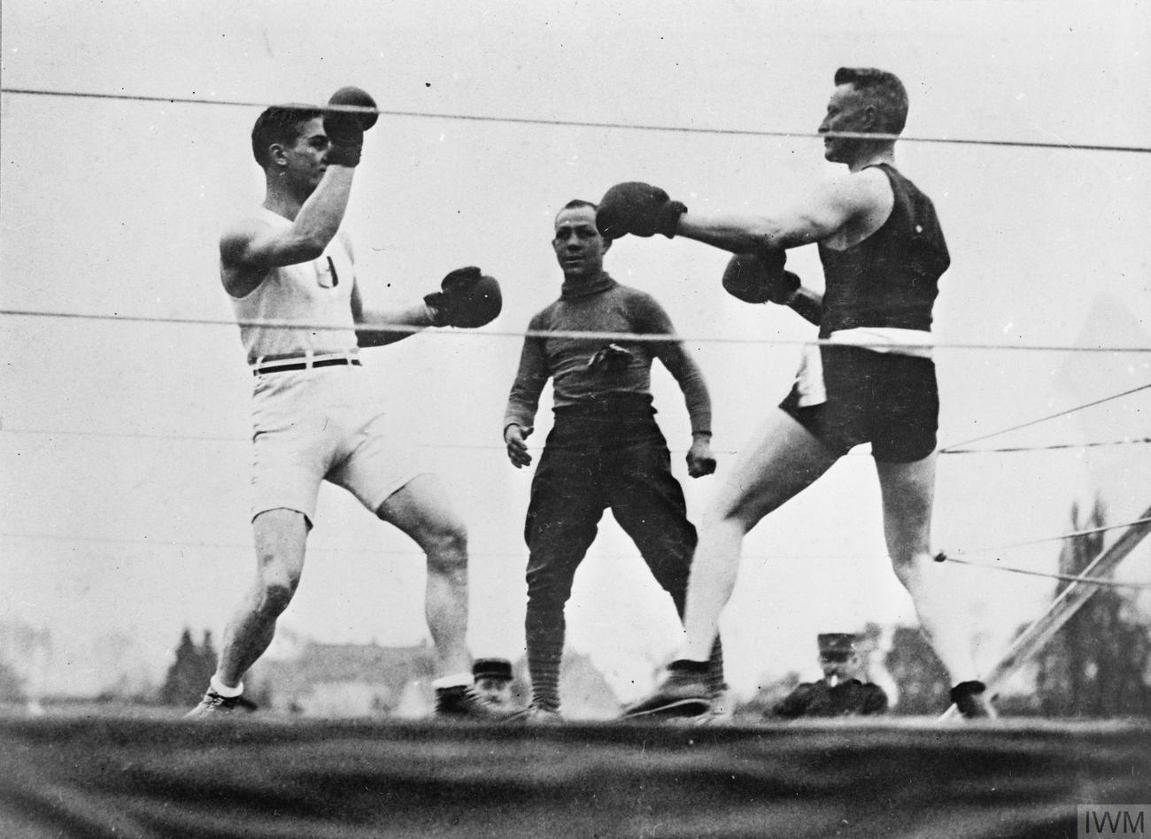 The American Army in France, 1918 Georges Carpentier, a boxer and a pilot of the French Air Force, sparring with an American soldier Sergeant R. Williams during a boxing tournament, St Aignan.